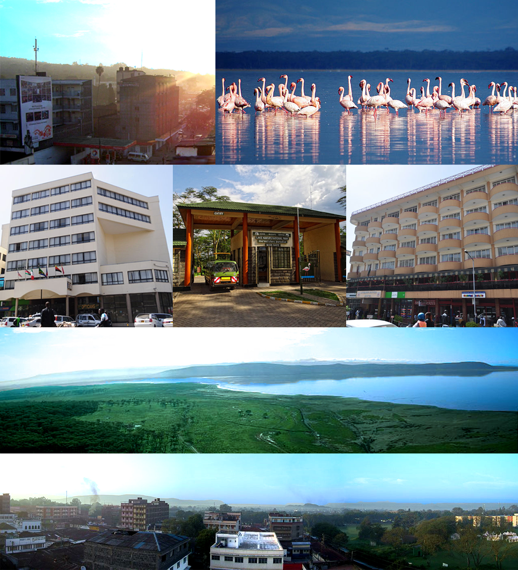 Nakuru MontageKiswahili: Picha za Mji wa Nakuru